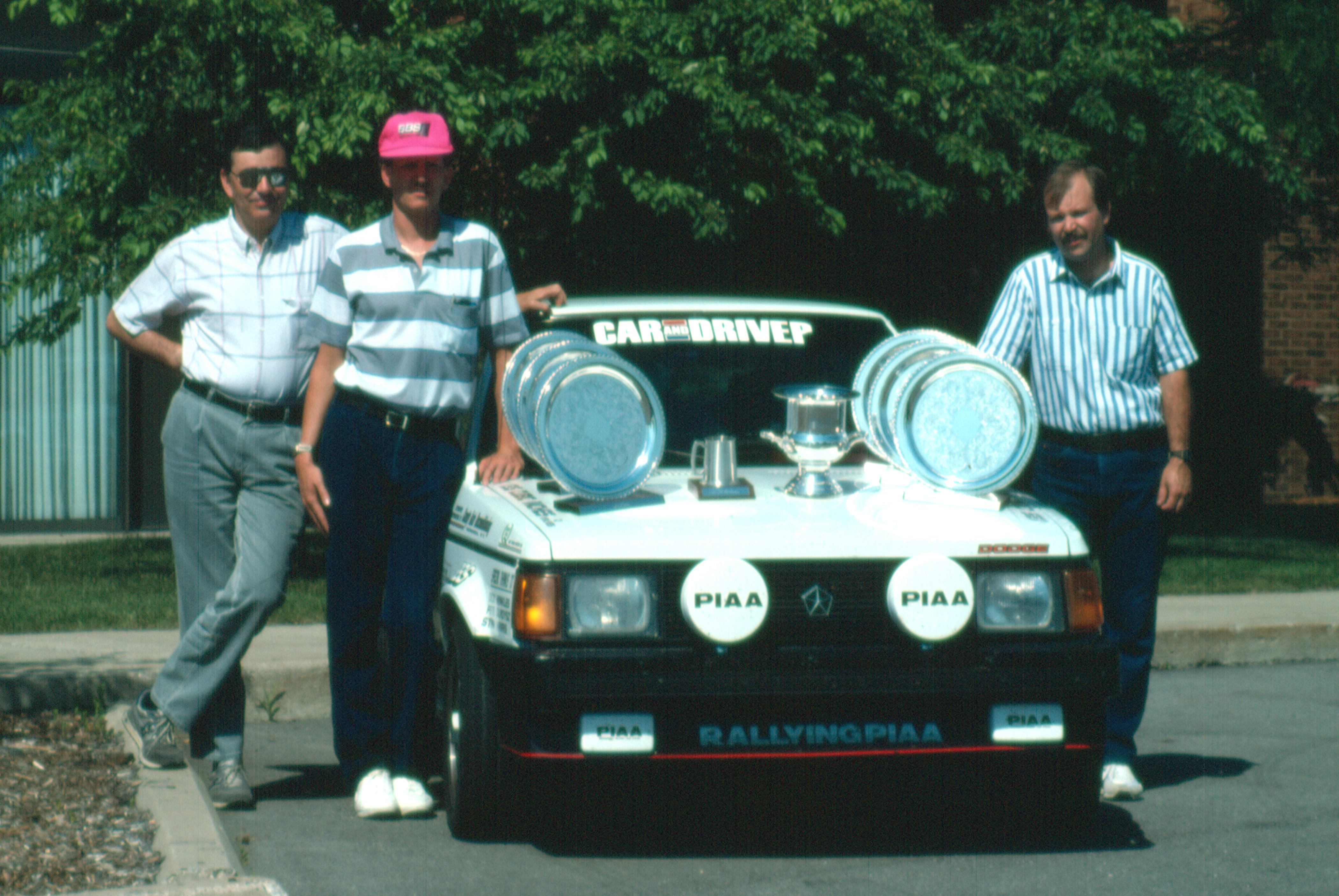 Dodge Omni GLH, welded together from 1984 and 1985 wrecks, was successful in the 1991 Car and Driver One Lap of America rally/race.